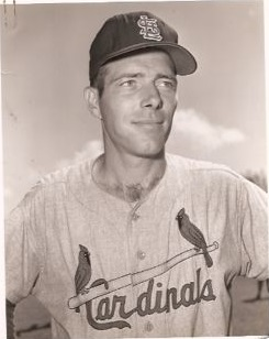 An early 1960s Houston Colt 45's press photo of Bobby Tiefenauer, who was drafted by the team in 1962. The website also shows the information about Tiefenauer in the back of the photograph (which I can upload in request), and without a copyright notice. A check of several other pictures doesn't include copyright notices. It is therefore presumed the entire Colt 45s press kit is PD not renewed/PD no copyright 1978.